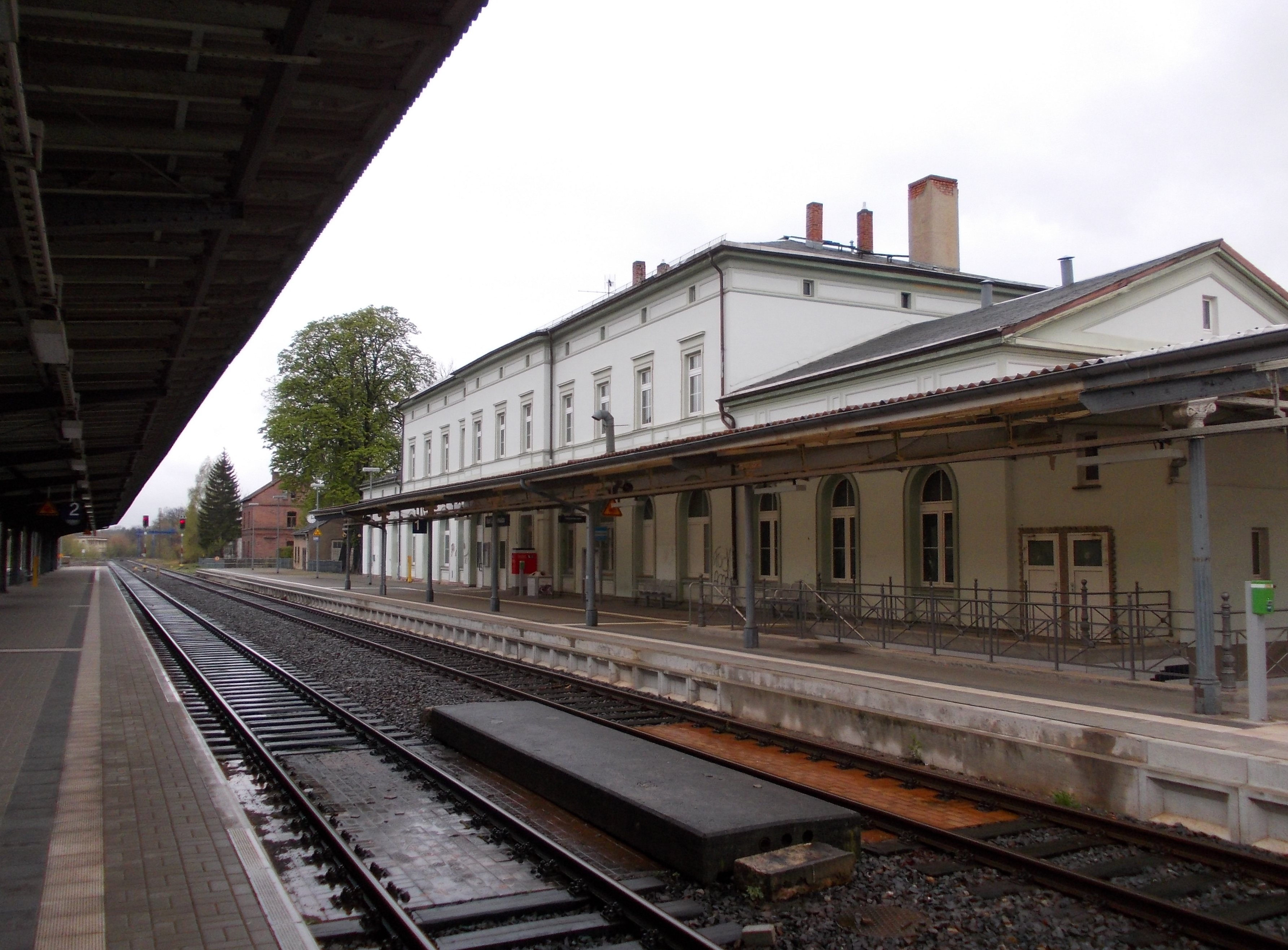 Bad Langensalza train station (Unstrut-Hainich-Kreis, Thuringia)